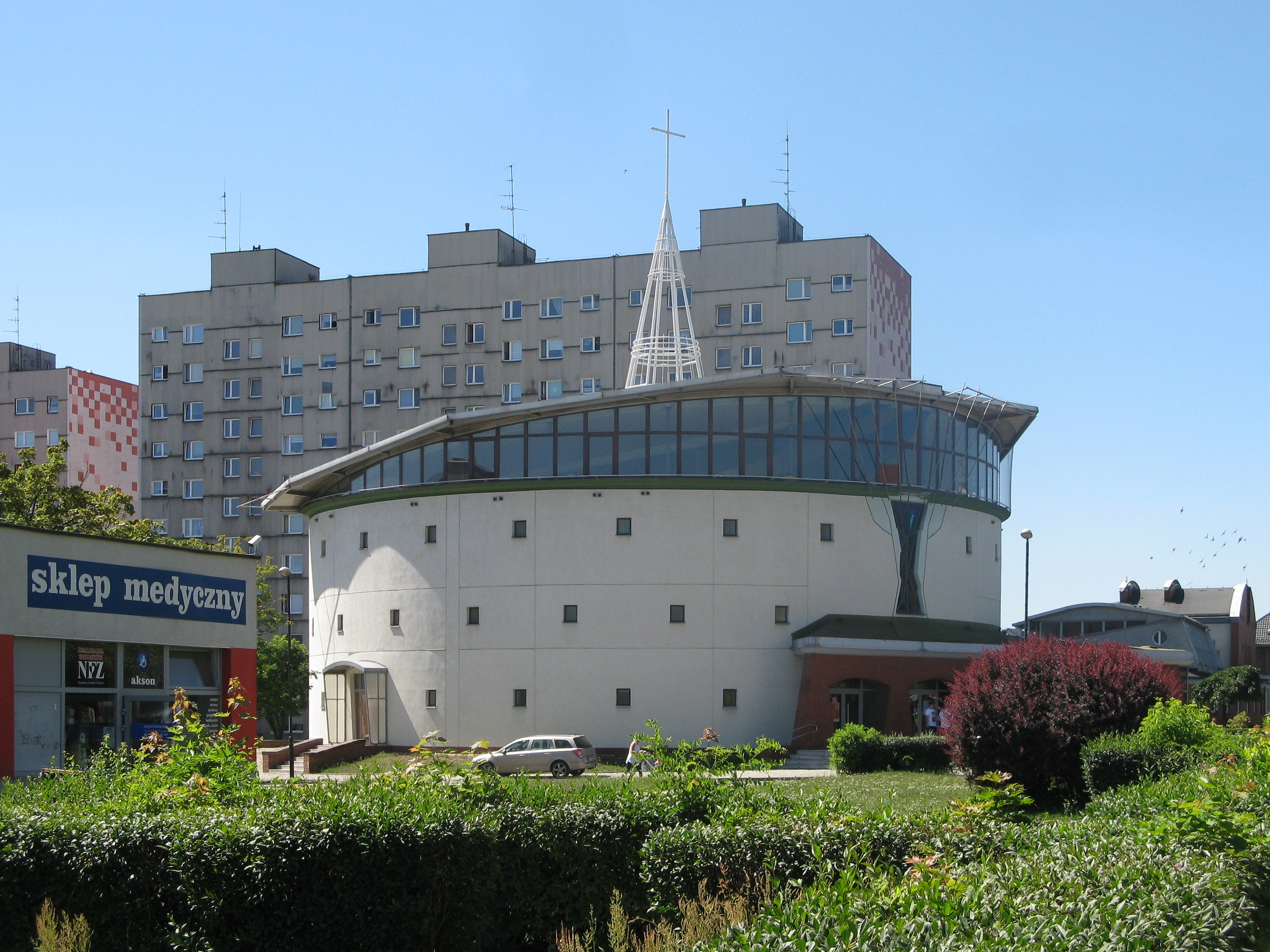 Holy Family church in Wieczorka estate, Piekary Śląskie, Poland.